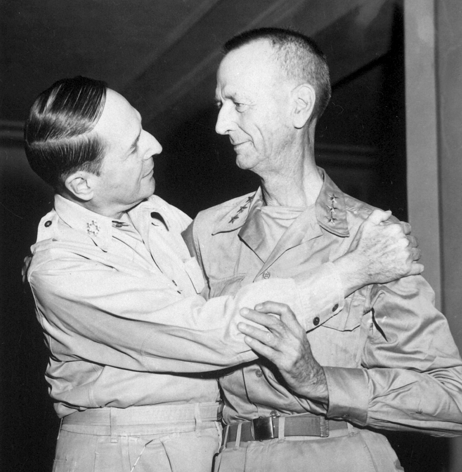 General of the Army Douglas MacArthur and Lt. Gen. Jonathan Wainwright greet each other at the New Grand Hotel, Yokohama, Japan on August 31, 1945, in their first meeting since they parted on Corregidor more than three years before.